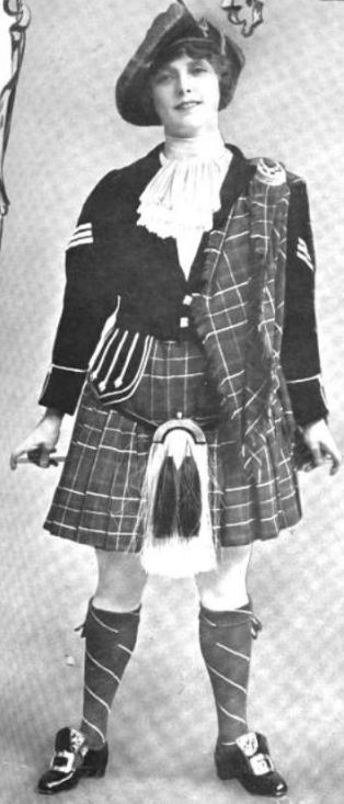 Portrait of Kitty Colyer from the Illustrated Sporting and Dramatic News, Volume 87, 1917, page 421